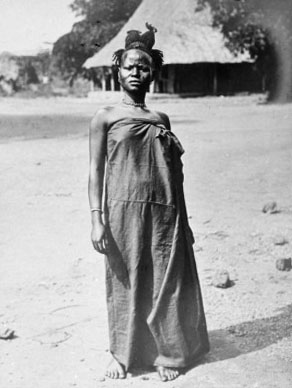 Mboum woman (Pictures taken by the Mission Moll, 1905-1907, Congo, Oubangui-Chari, Tchad, Cameroun